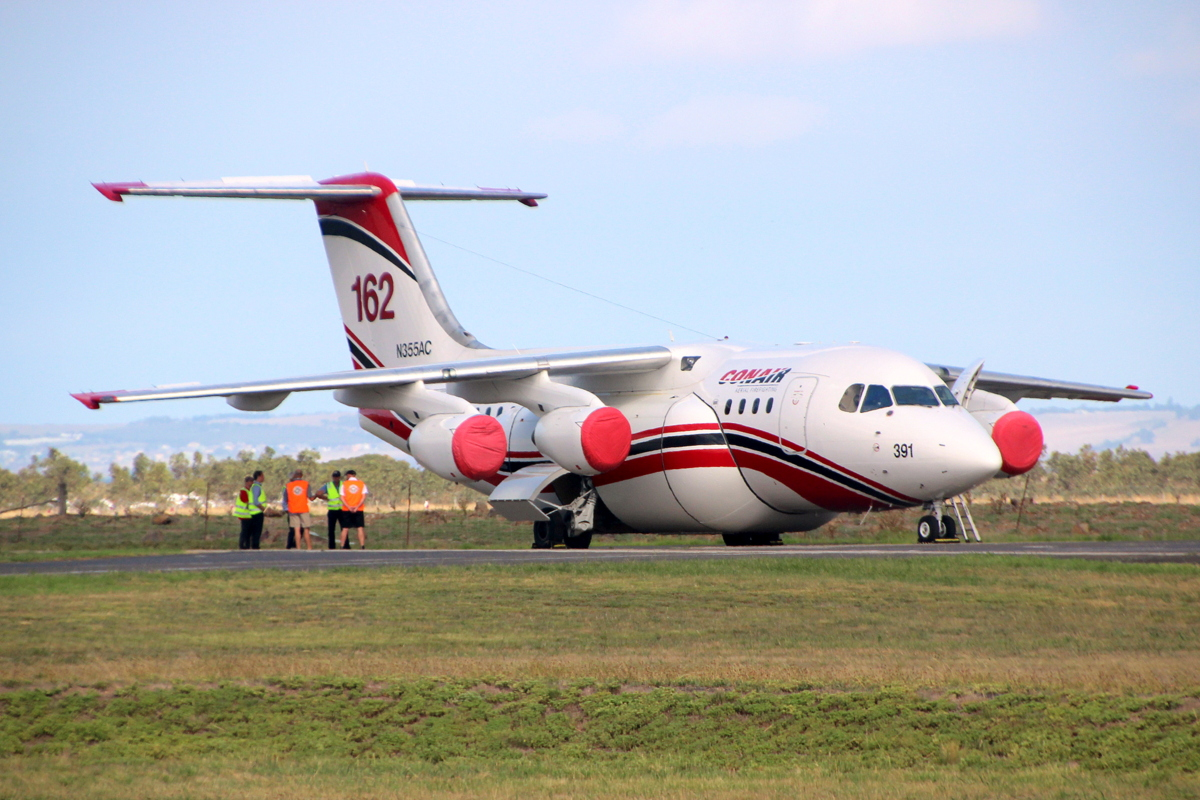 An Avro RJ85 (British Aerospace 146) airliner modified for use in aerial firefighting. Digital image of N355AC taken at Avalon Airport in Victoria, Australia by YSSYguy on 26 February 2015 and uploaded for use in the British Aerospace 146 article. Imaged edited using Picasa software. YSSYguy (talk) 02:31, 6 November 2016 (UTC)